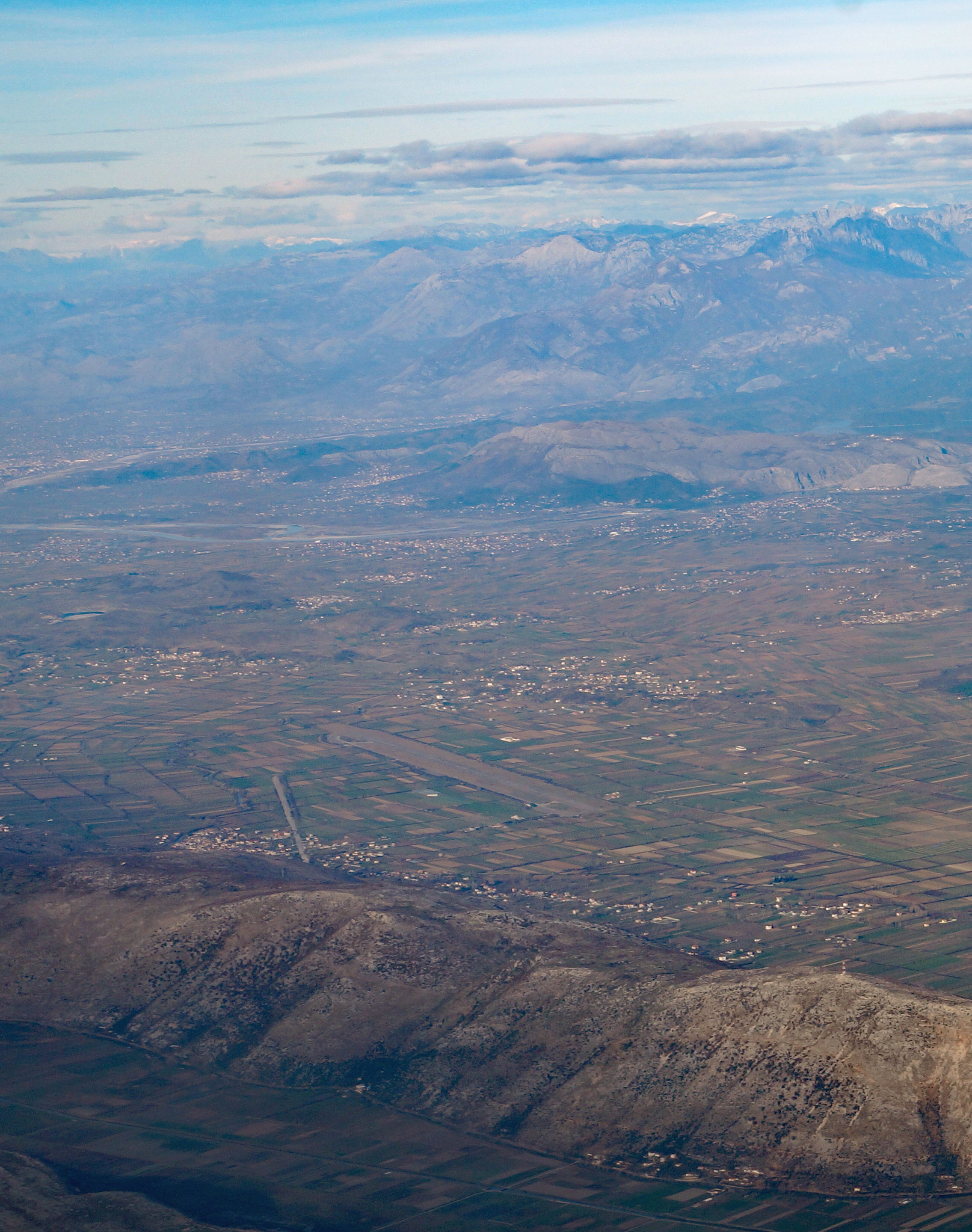 Zadrima plain in Northern Albania, looking North to the Albanian Alps, Gjadër Air Base to the left